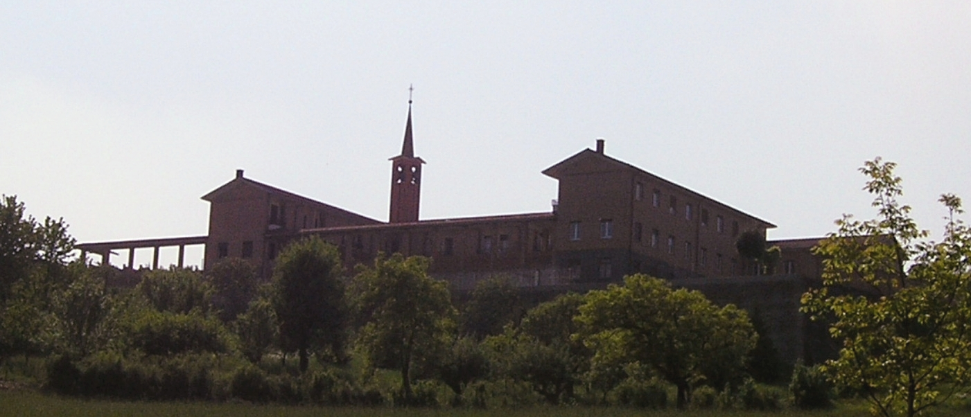 Monastery of the poor clares, a Vicoforte (Italy)